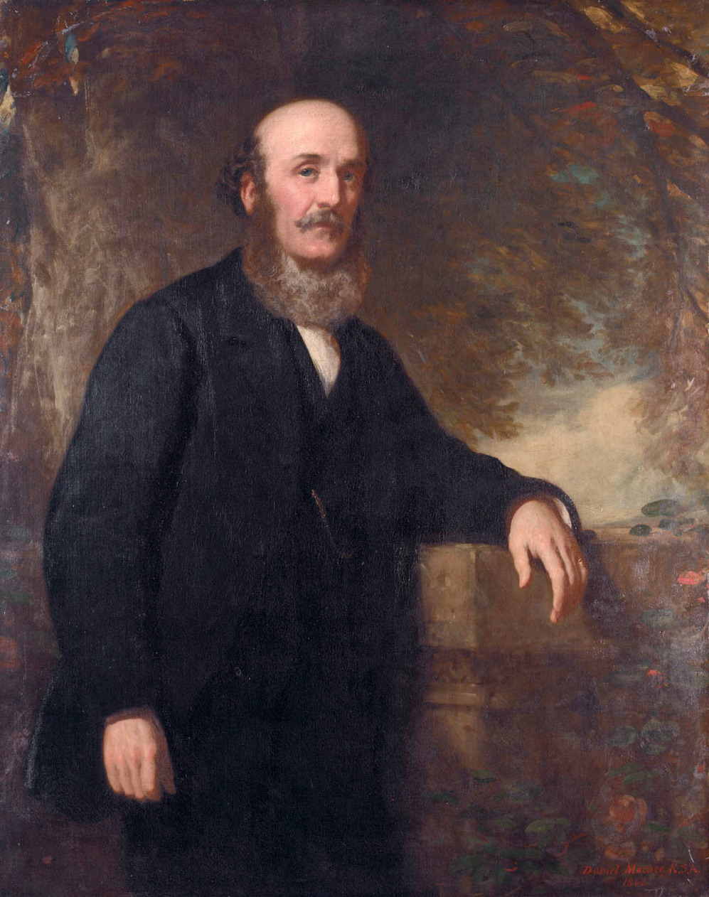 Peter Denny (1821-1895) oil on canvas 127 x 101.6 cm signed b.r.: Daniel Macnee, R.S.A. / 1868